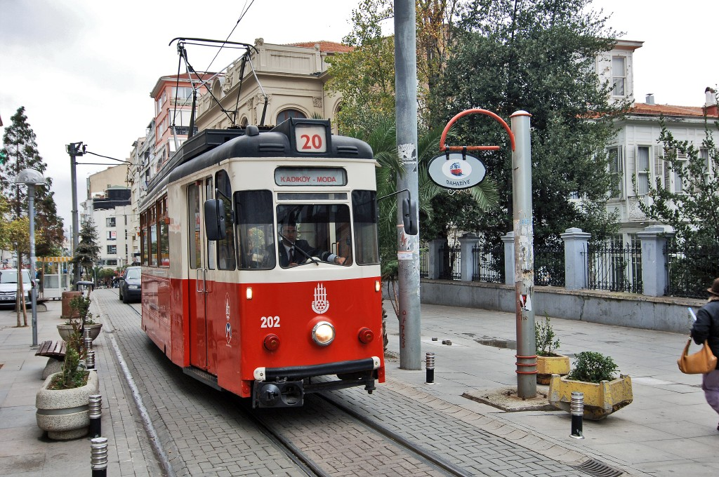 Car 202 (ex-Jena 102) of İstanbul Ulaşım on Line T3 (Kadıköy - Moda) in Istanbul.